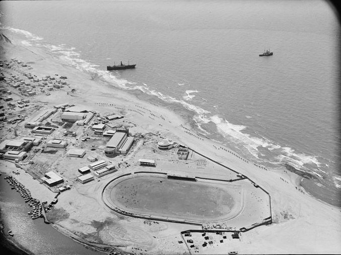 The norwegian "Folocs" stucked on Tel Aviv shores, after february 25th 1934 storm. Down on the bottom is Hayarkon river, and in between are Migrashey Hatarucha Yerid Hamizrach, where today stands Tel Aviv Port